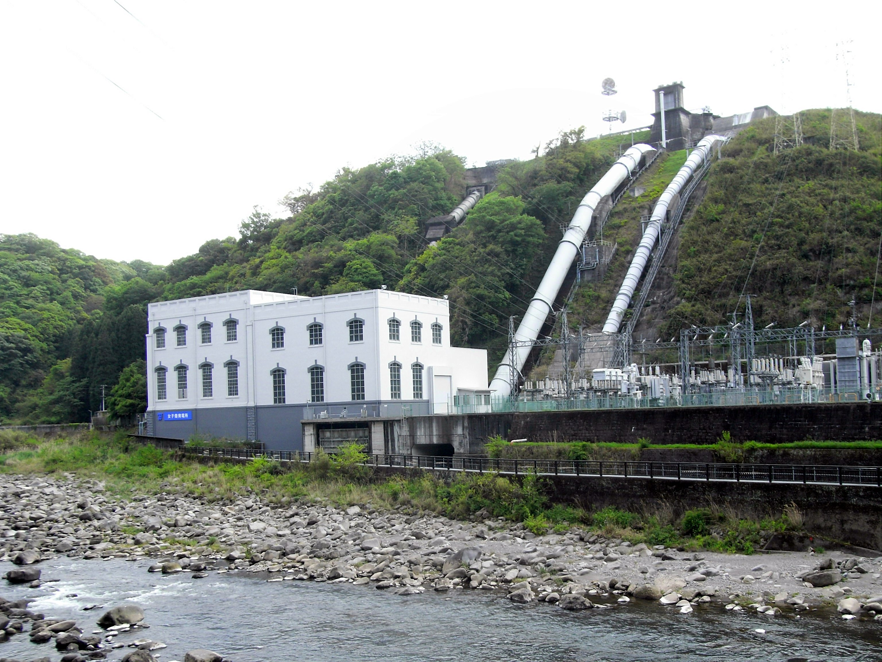 Onagohata power station(Kusugawa river/Oita pref./Japan)